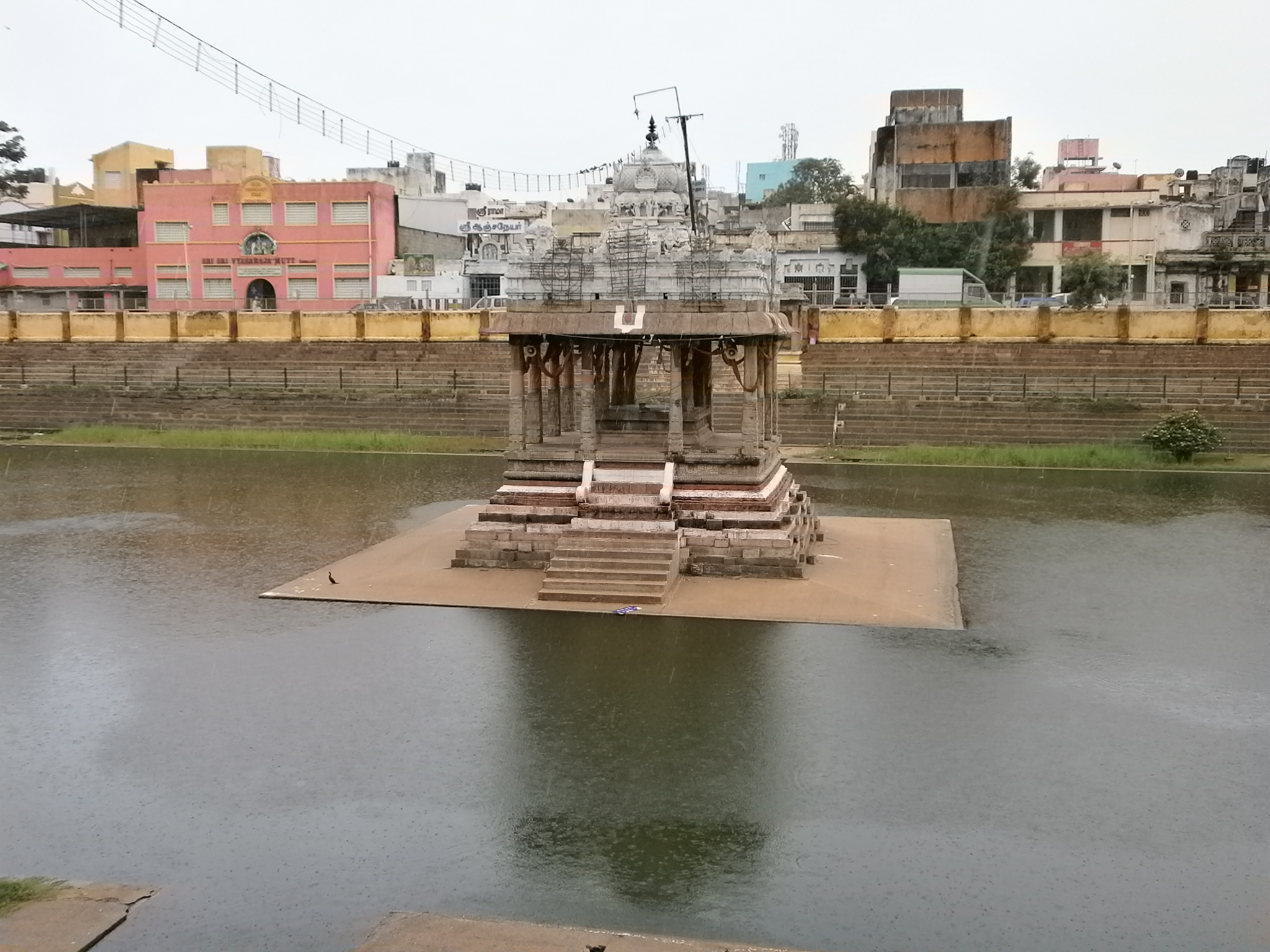 Parthasarathy Temple Triplicane Chennai Photo - 7